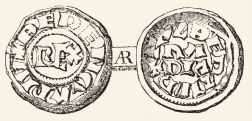 Obverse and reverse of a coin of Berengar II of Italy and Adalbert.